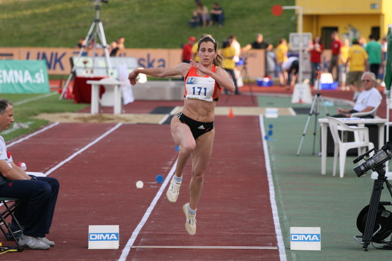 Marija Šestak in 2007